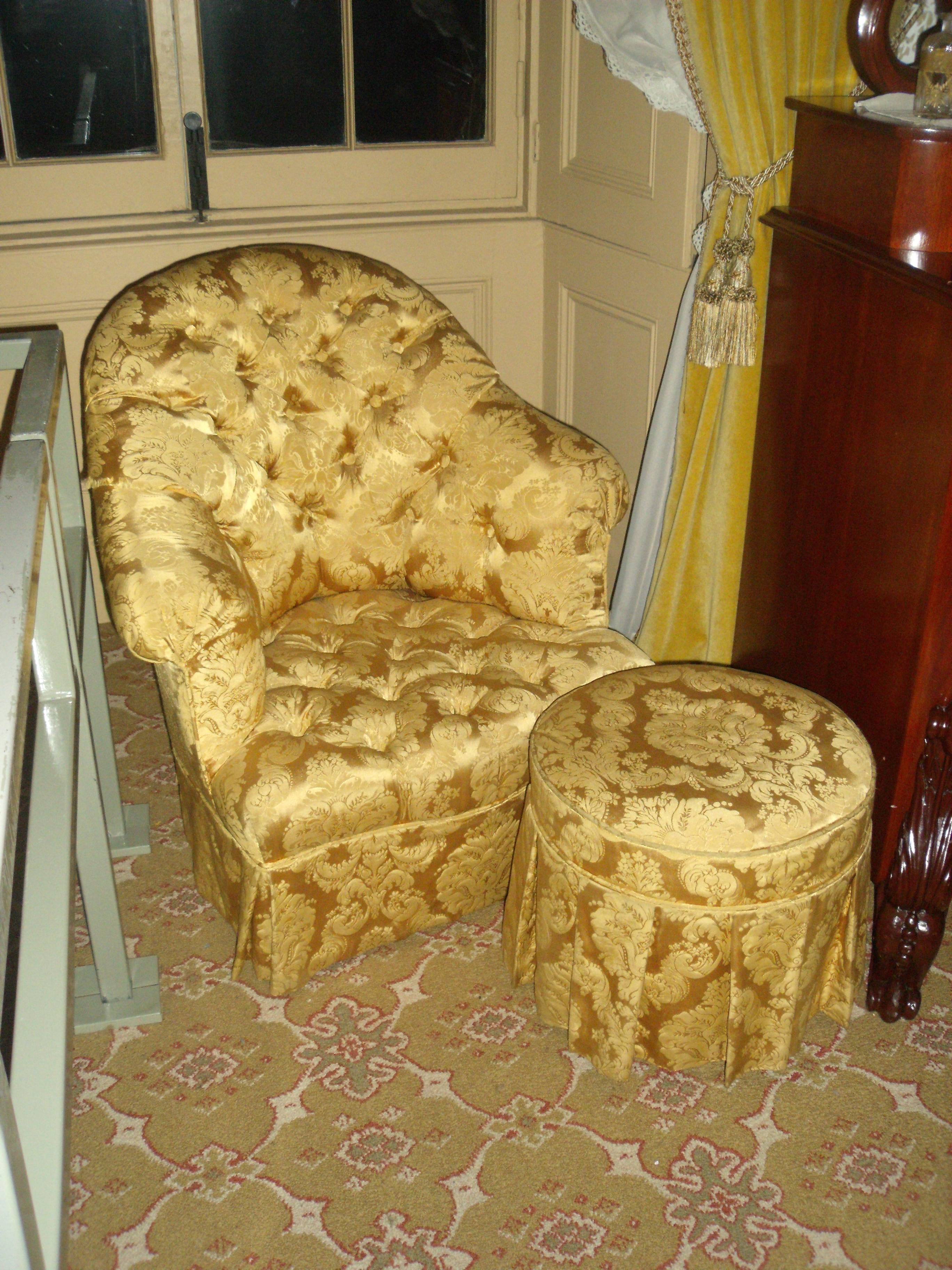 Mrs Cartier's bedroom, Sir George-Étienne Cartier National Historic Site, 458 Notre-Dame Street East, Montreal, Quebec, Canada.